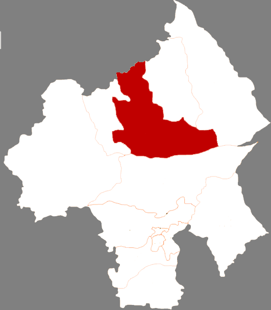 Location of Baarin Right Banner in Chifeng City, China